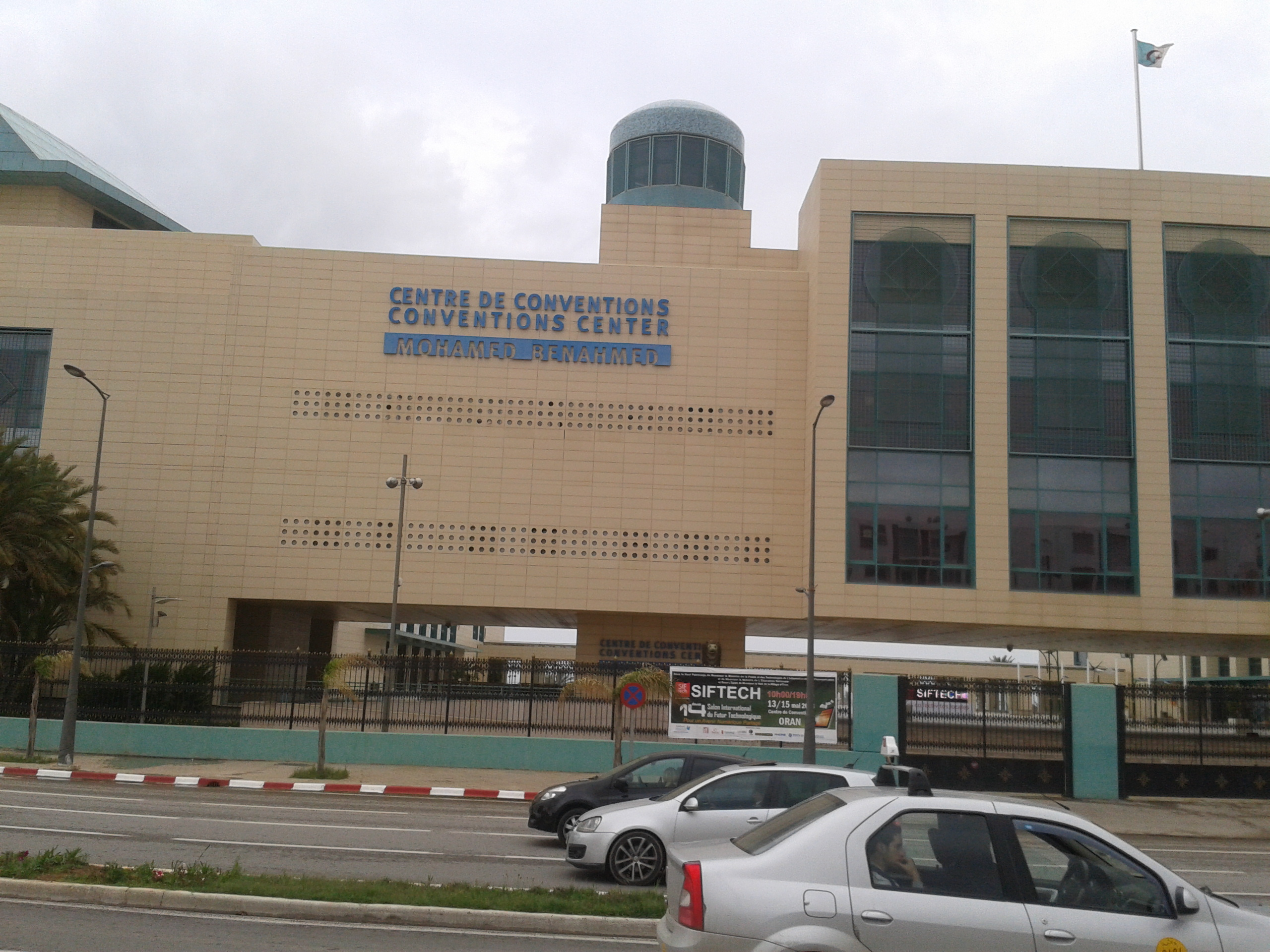 Conventions Center, Oran, Algeria